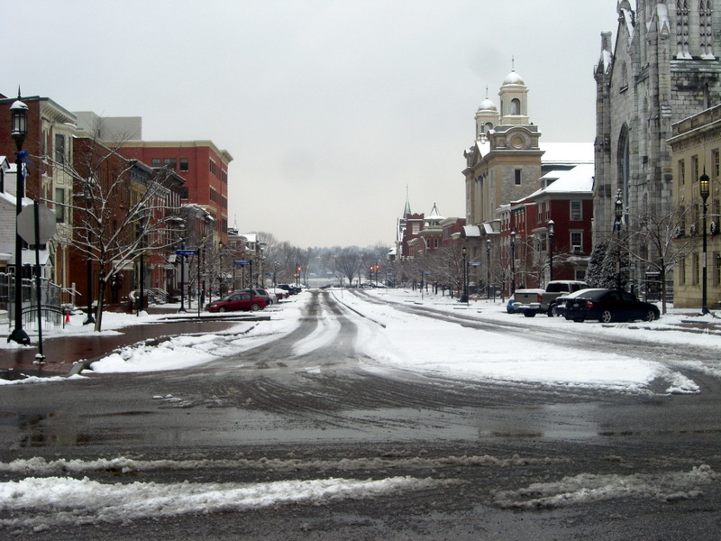 Harrisburg Historic District This photo was taken from the capitol in Harrisburg.